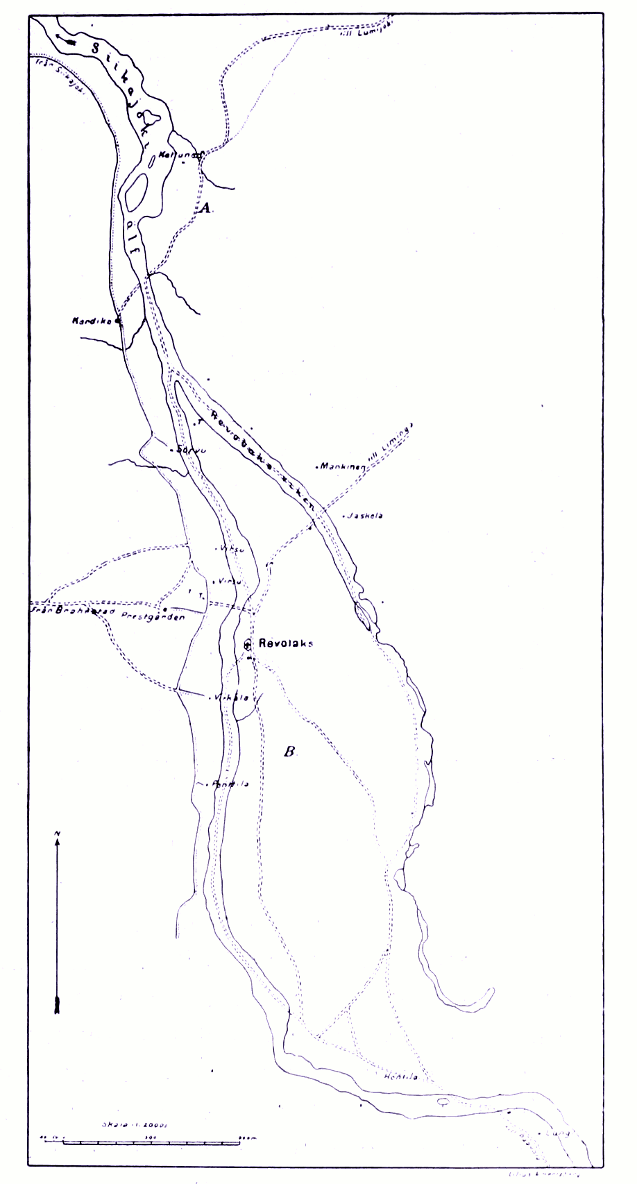 Map of the Battle of Revolax